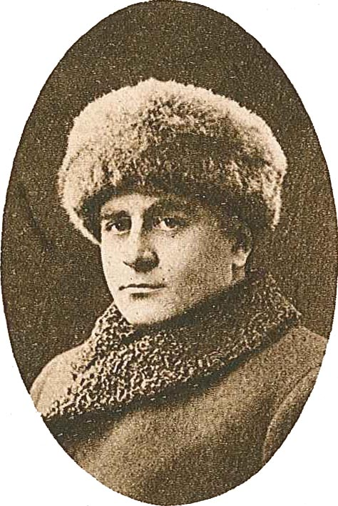 Emile Stiebel (1876-1950), Swedish opera singer and actor.